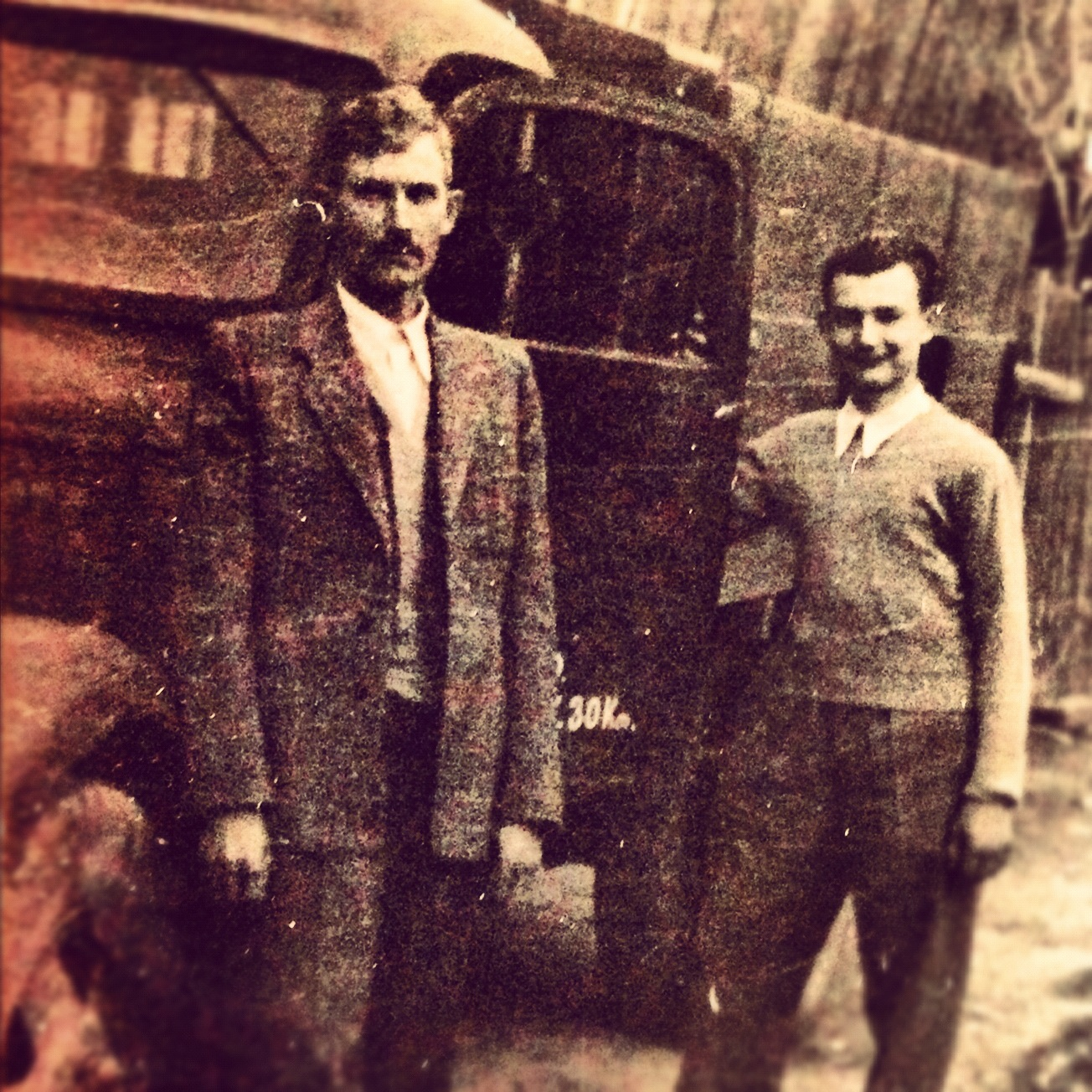 Barabasi Laszlo and his father, Barabasi Albert